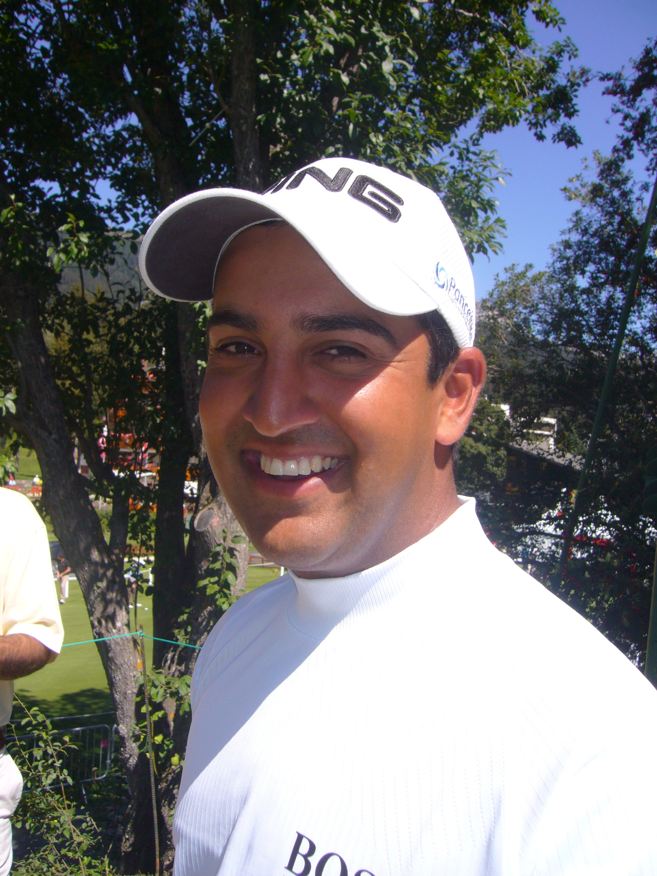 Shiv Kapur, Indian golfer at European Masters 2009 in Crans